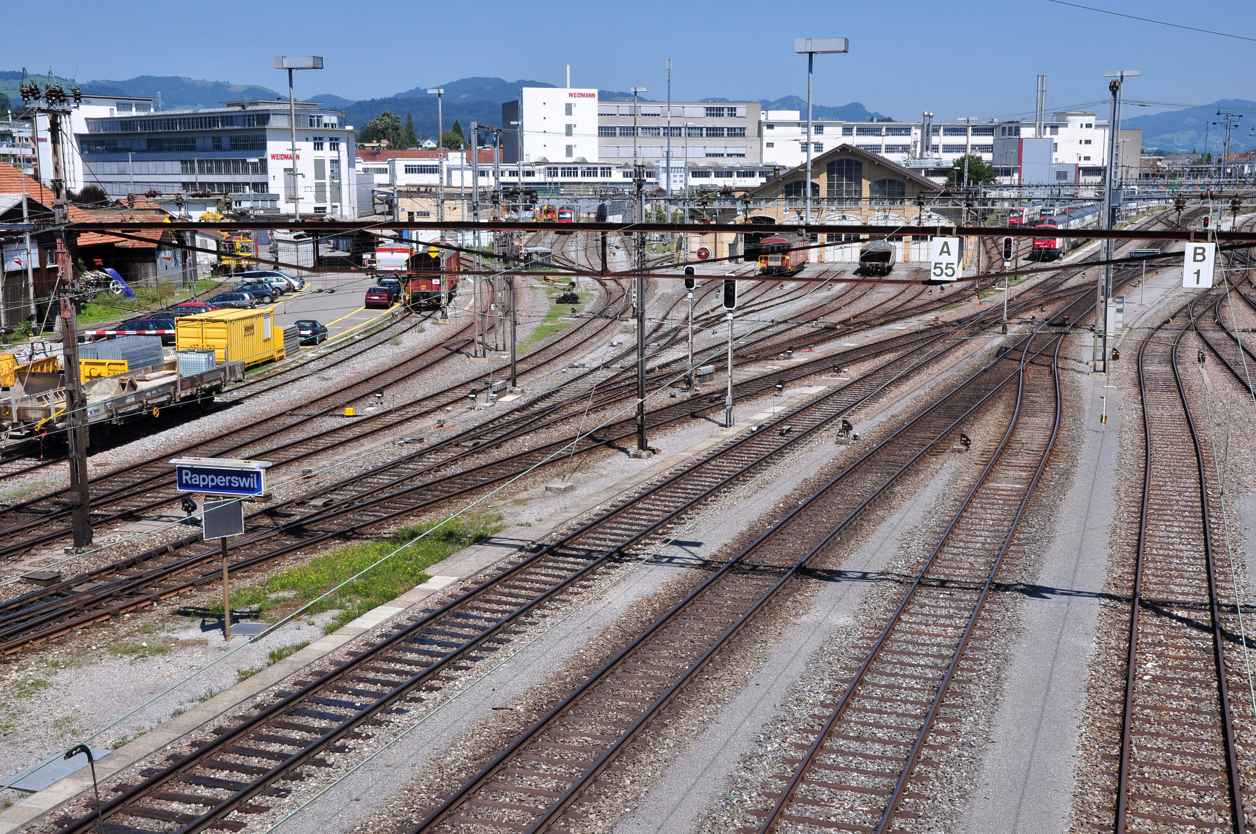 Railway station respectively Weidmann (Wicor Holding) in Rapperswil (Switzerland)